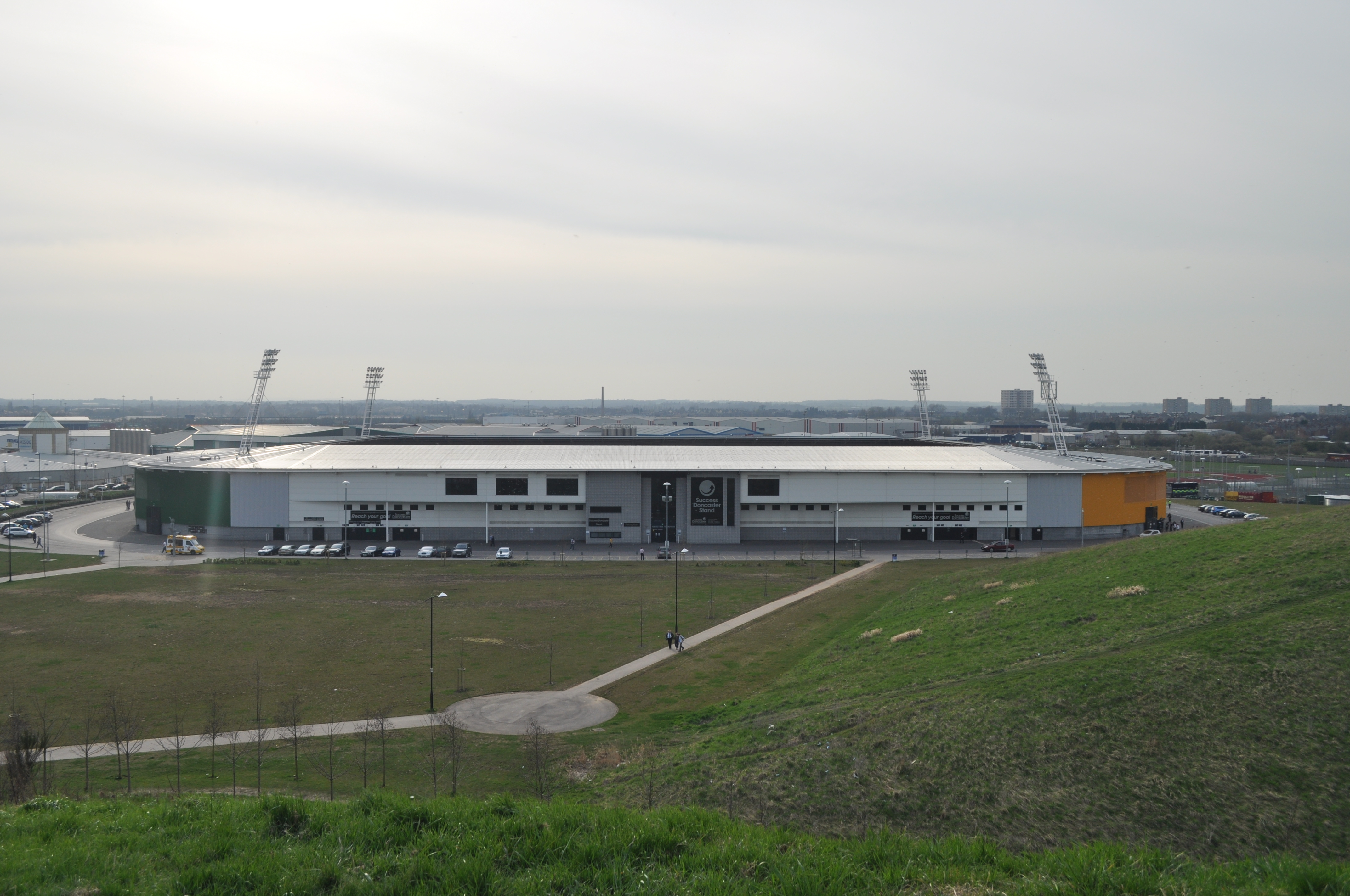 Keepmoat Stadium in Doncaster, South Yorkshire, UK